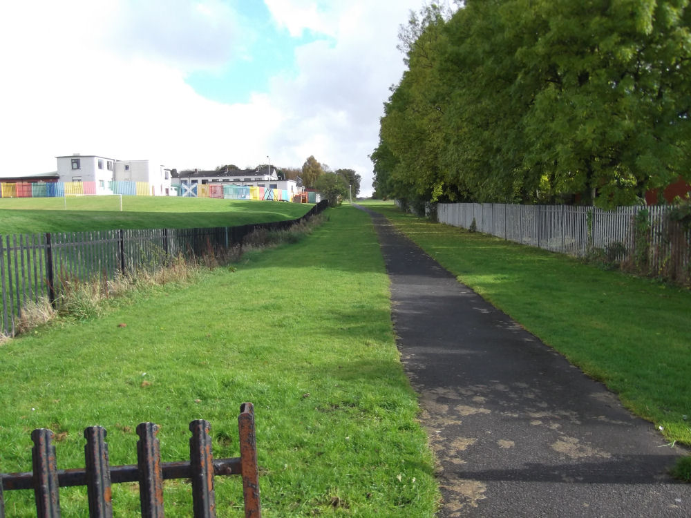 Airdrie Lanarkshire UK at NGR 275395,666125 looking east up former Ballochney Railway Incline now a footpath; at Whinhall Road near Leaend Road